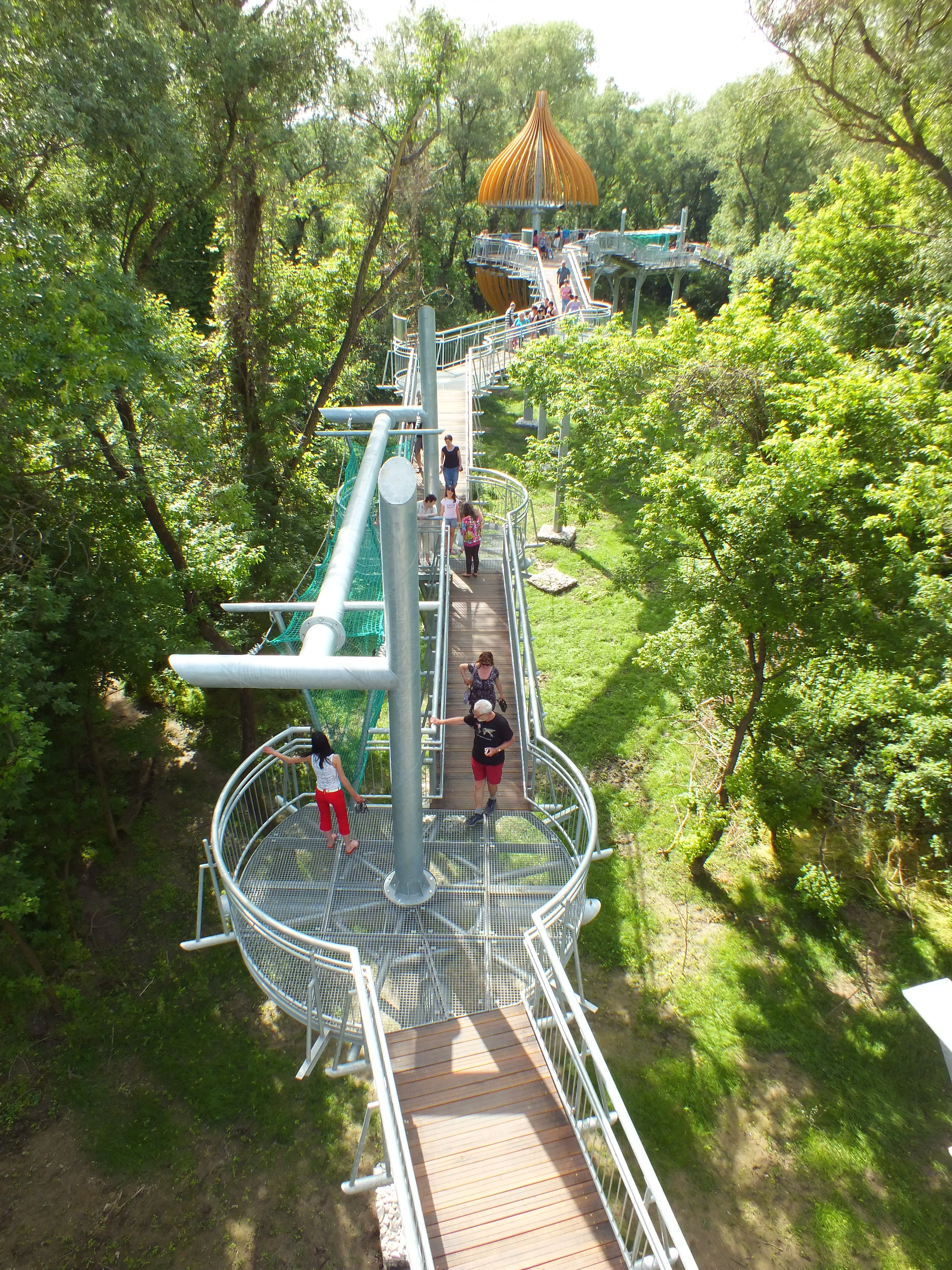 Canopy walkway in Makó, Hungary, near the Maros river.